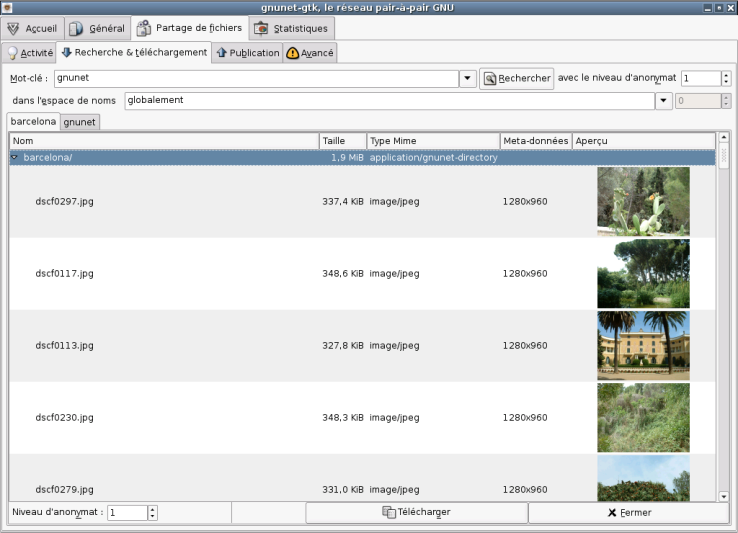 GTK+ interface to GNUnet anonymous P2P, under Linux and GNOME, in French